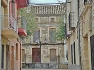 oipoopp